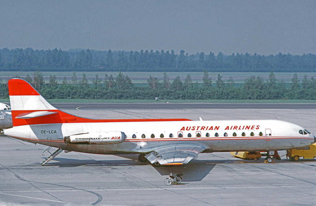 Sud SE-210 Caravelle VIR OE-LCA of Austrian Airlines at Vienna in 1972